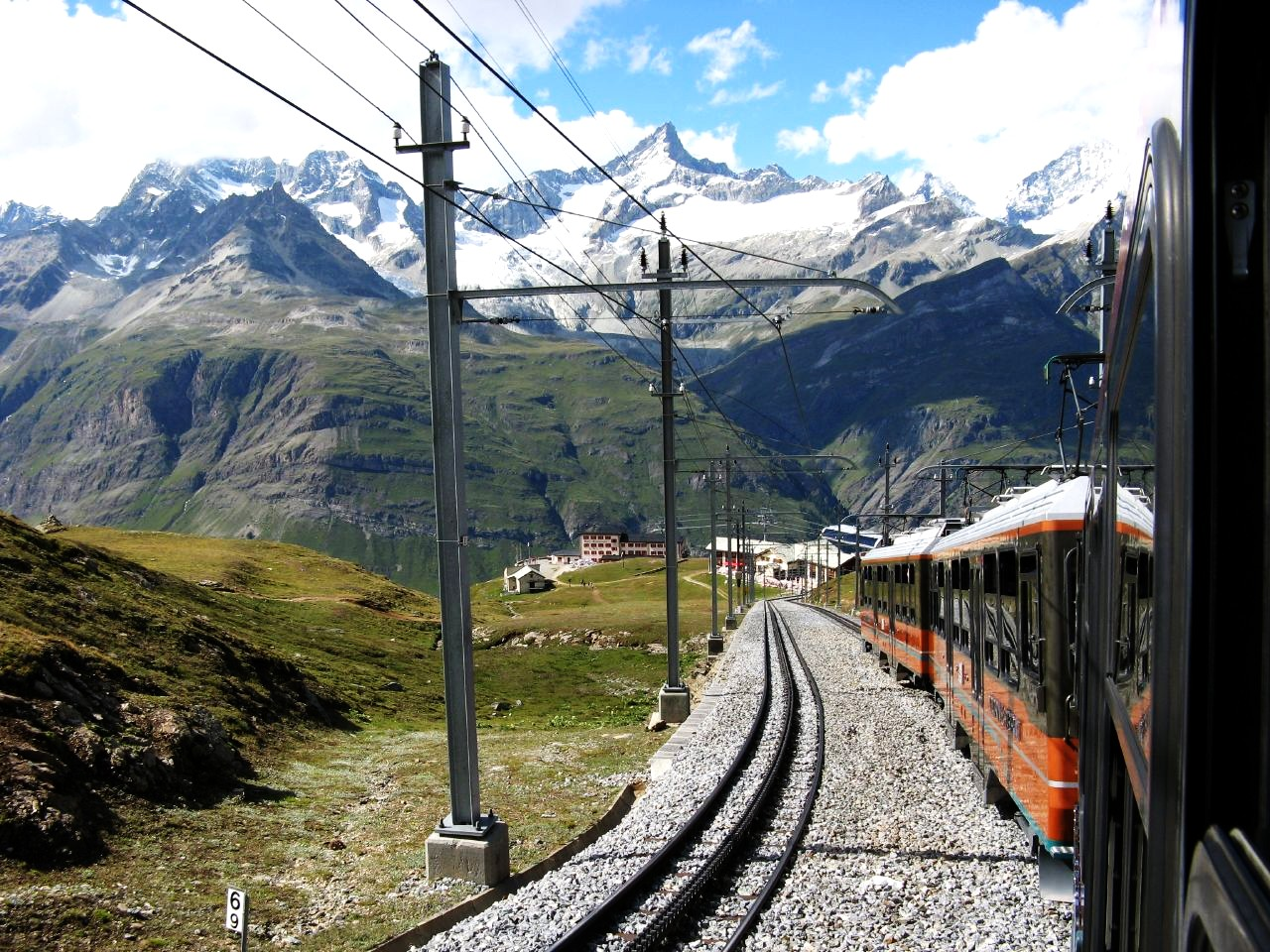 Gornergrat train above Riffelberg station, near Zermatt